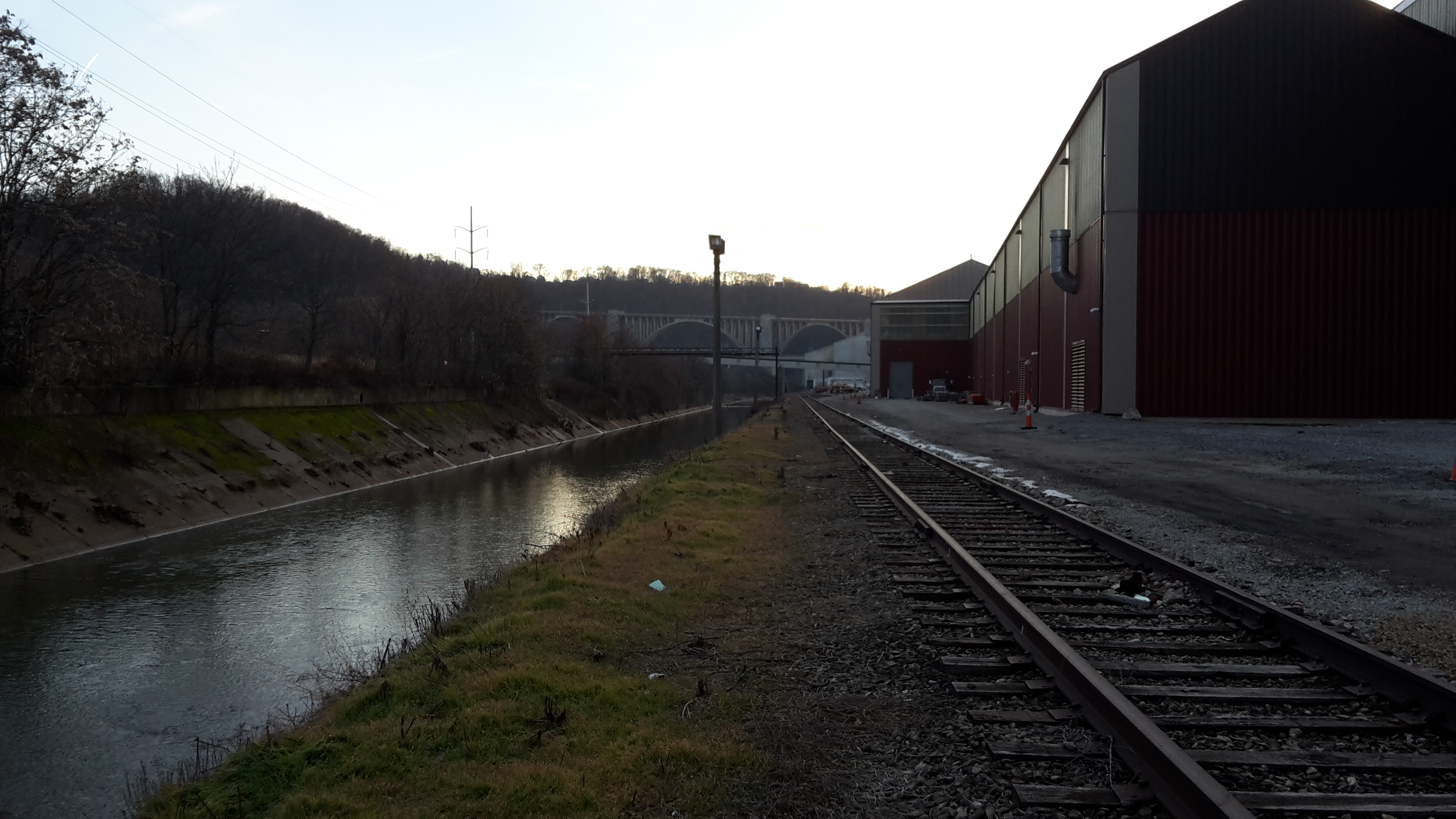 Westinghouse Interworks Railway between Turtle Creek and Keystone Commons in Turtle Creek, PA. January 2017